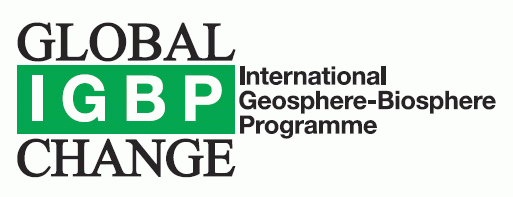 Logo for the International Geosphere-Biosphere Programme